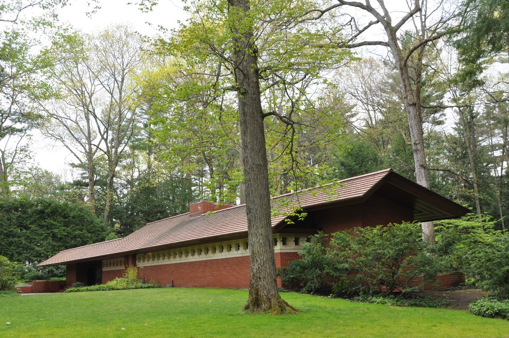 The Zimmerman House in Manchester, New Hampshire. Designed by Frank Lloyd Wright, the house is open as a museum operated by the Currier Museum of Art.